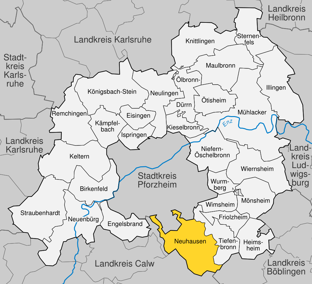 position of Neuhausen within distict of Enzkreis, Baden-Württemberg, Germany